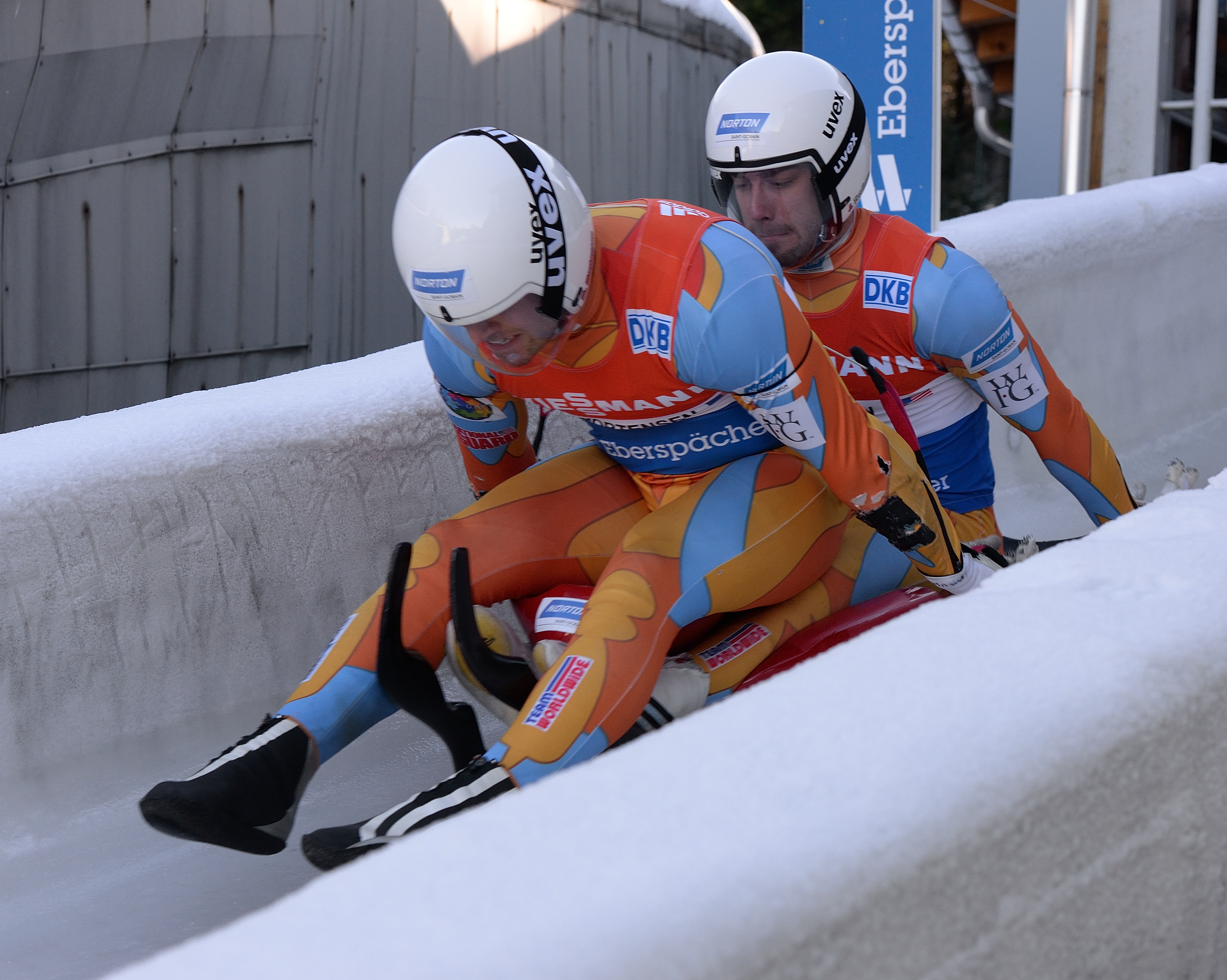 Luge world cup race season 2014/15 in Altenberg/Germany, 19th to 22nd Februar 2015. Day 1: training.